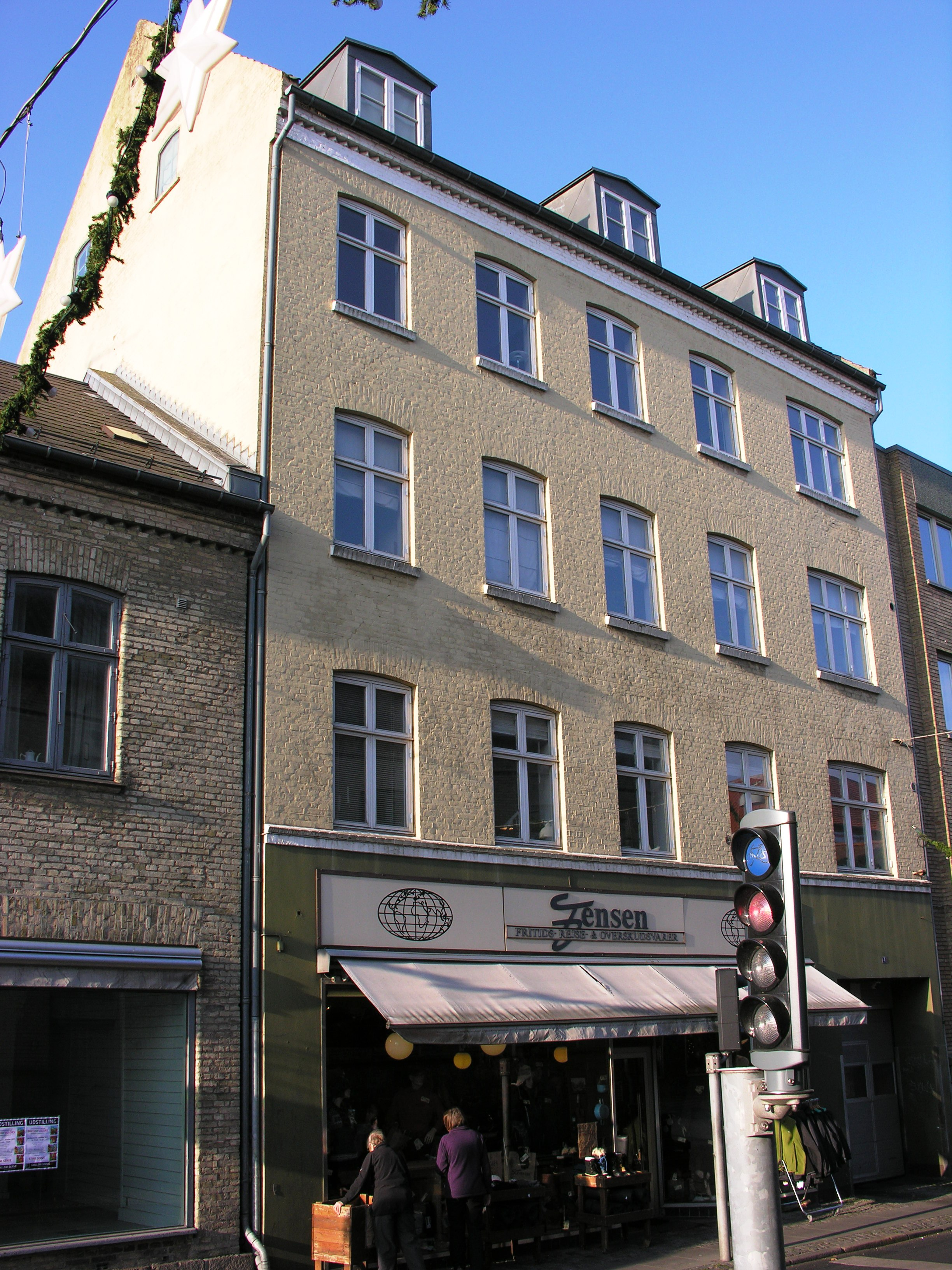 Roskilde, Ringstedgade 4, the house where the Hude family lived